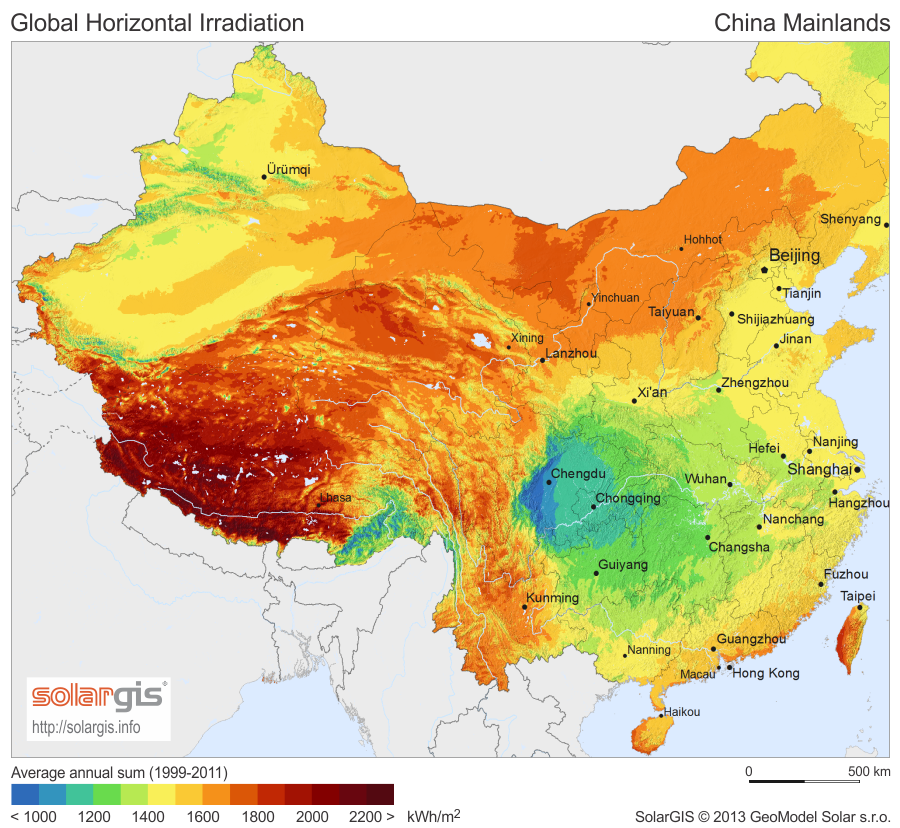 Solar Radiation Maps: Global Horizontal Irradiation (GHI) - Mainland China